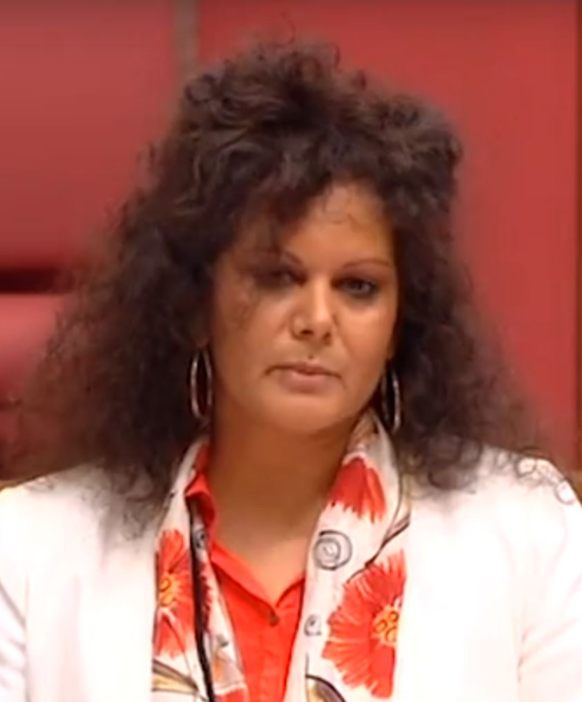 Cropped video still of Malarndirri McCarthy speaking in the Australian Senate